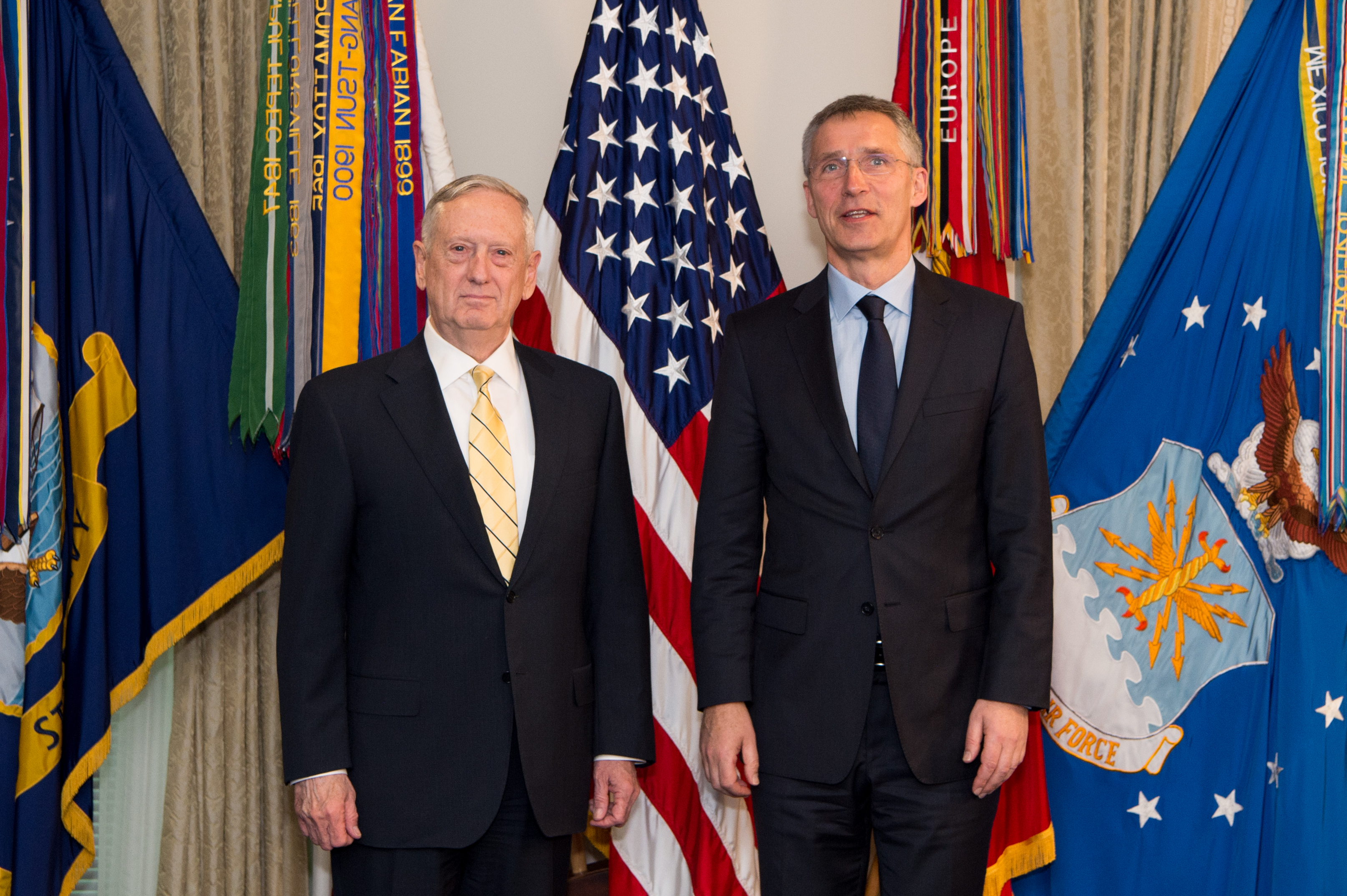 Defense Secretary Jim Mattis stands for a photo with NATO Secretary General Jens Stoltenberg before a bi-lateral meeting at the Pentagon in Washington, D.C. on March 21, 2017. (DOD photo by Army Sgt. Amber I. Smith)